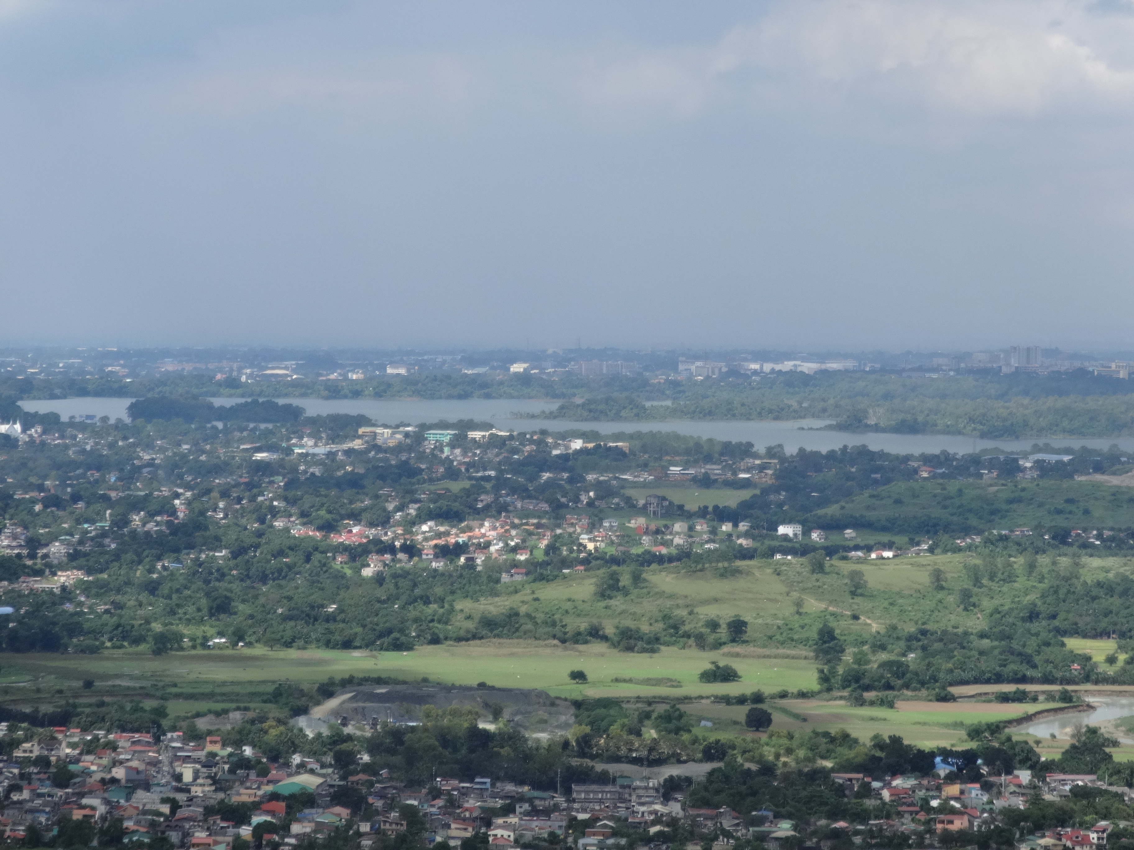 View of Quezon City's Novaliches-Fairview area with La Mesa reservation. Shot from Mount Maarat, San Mateo, Rizal